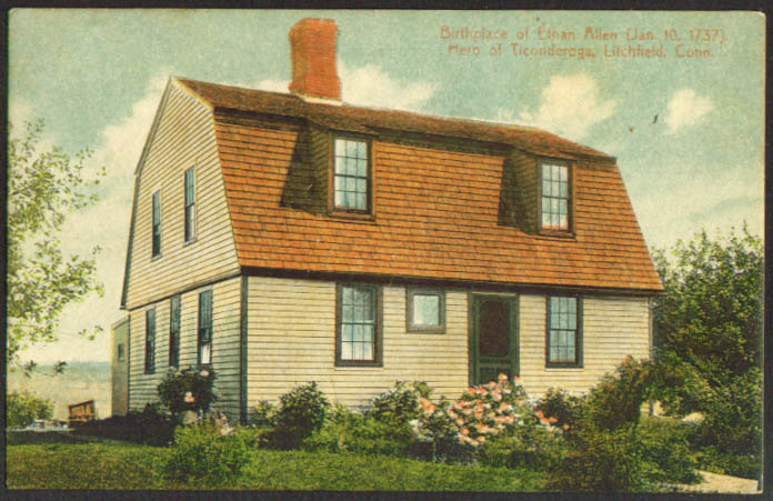 Postcard depicting Ethan Allen birthplace in Litchfield, postmarked in 1916, according to store Web site: "Ethan Allen Birthplace Litchfield CT postcard 1916 [page title] [...] Written, stamped & mailed. Date in title indicates full date as shown on postmark. Card may have been manufactured around that date, or much earlier. Standard-size postcard."